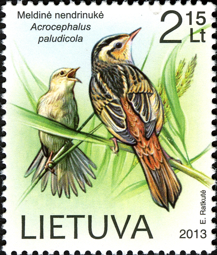 Stamps of Lithuania, 2013